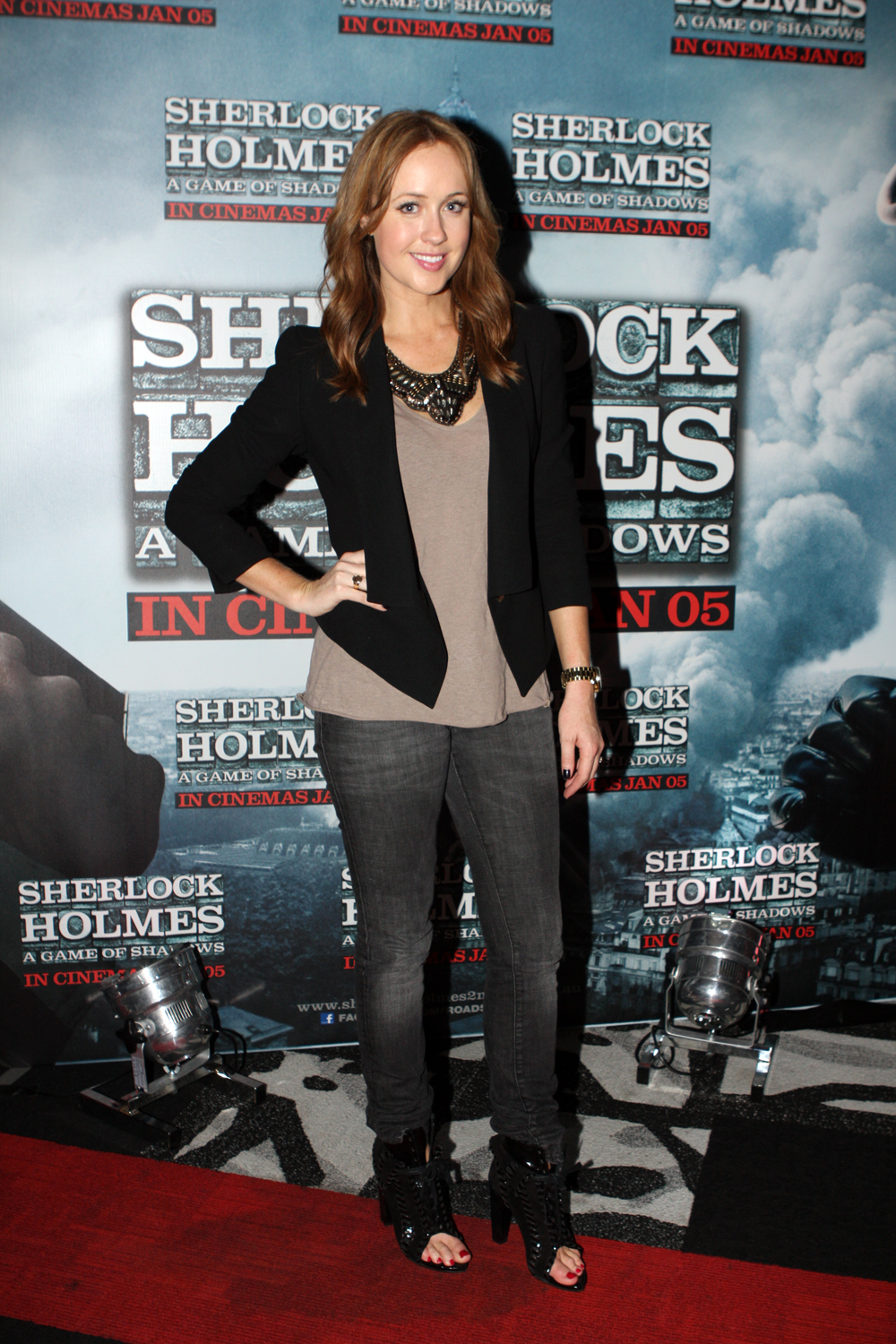 The Sydney premiere of this summer’s blockbuster SHERLOCK HOLMES: A GAME OF SHADOWS, took place at Event Cinemas, Bondi Junction, in Sydney's eastern suburbs earlier tonight. Guests attended a private cocktail reception in the Set Bar before the enjoying a screening of Guy Ritchie’s sequel to his 2009 blockbuster. The guests started pouring in at 6pm and the movie kicked off at 7pm. Event Cinemas at Westfield Bondi Junction once again snatched the bragging rights to a world class premiere. Guests included Kerri-Anne Kennerley, Layne Beachley, Kirk Pengilly, Sophie Lowe, Jonathon Coleman and Lizzy Lovette. The Movie Plot... Sherlock Holmes and his trusty sidekick Dr. Watson join forces to outwit and bring down their fiercest adversary, Professor Moriarty. Director: Guy Ritchie Writers: Kieran Mulroney, Michele Mulroney Actors: Robert Downey, Jr, Jude Law, Noomi Rapace, Jared Harris, Stephen Fry, Rachel McAdams, Eddie Marsan Producers: Gary Goetzman, Joel Silver Websites Sherlock Holmes 2 official website Village Roadshow Australia Event Cinemas Music News Australia